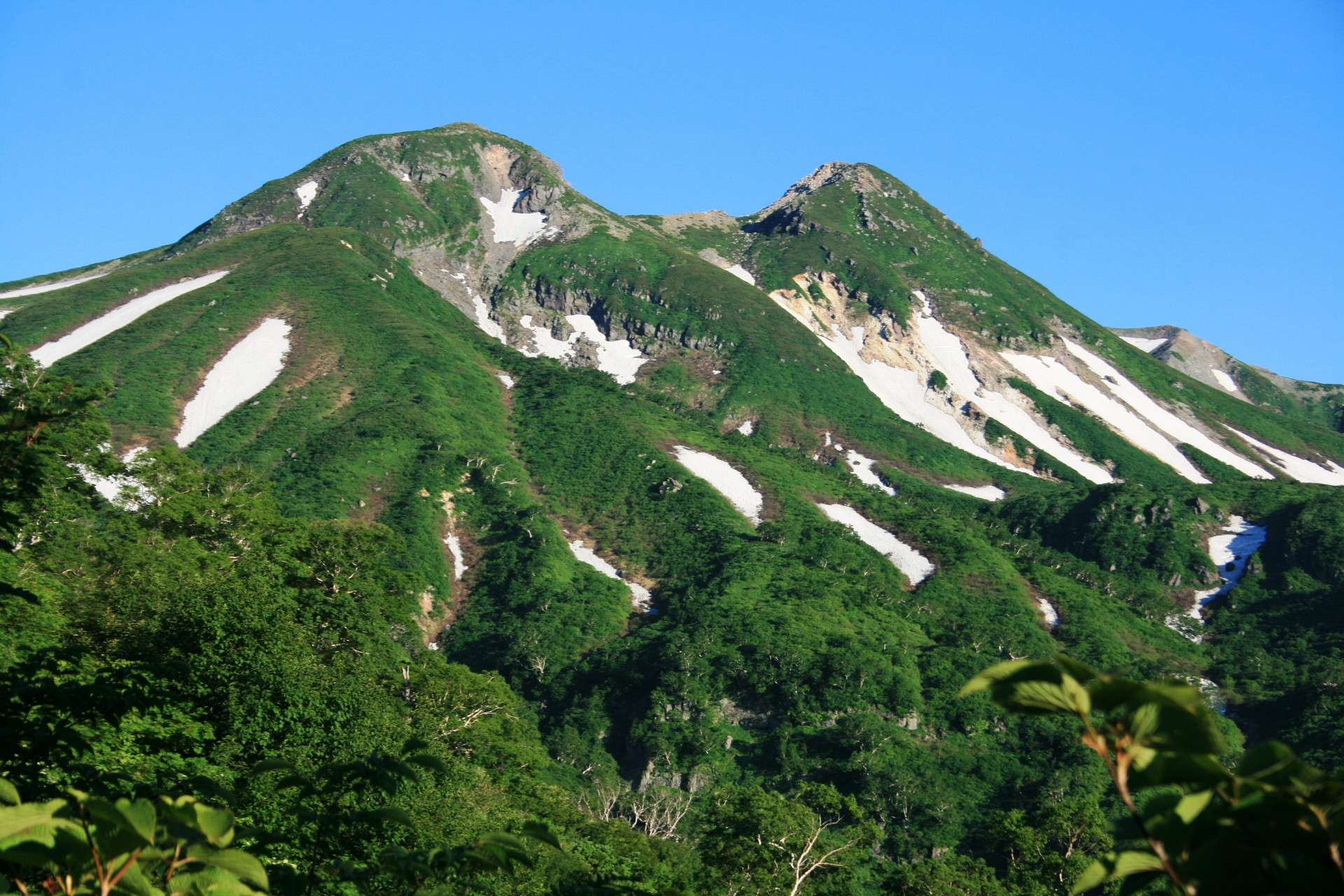 Mount Haku seen from Okura ridge